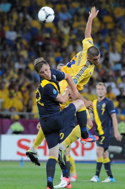 UEFA Euro 2012 match between Ukraine and Sweden that took place in Kiev. Final result was 2:1 (2xShevchenko - Ibrahimović)